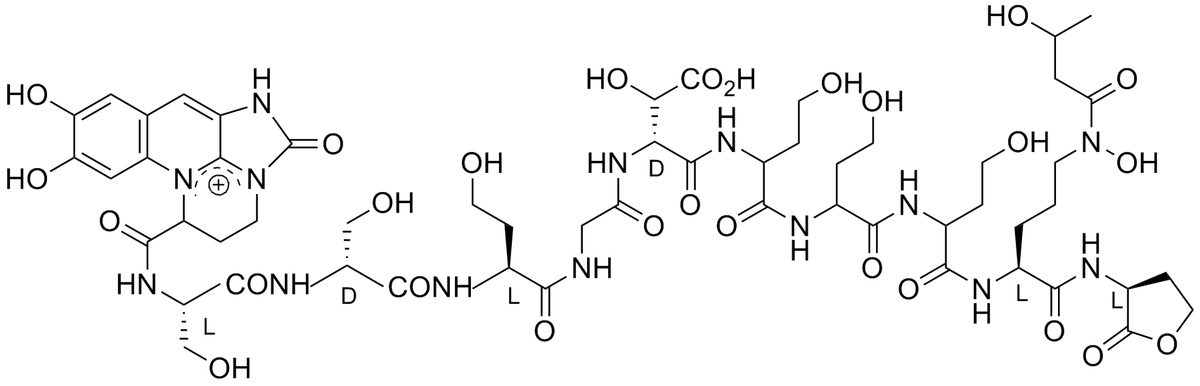 Chemical structure diagram - Azotbactin.